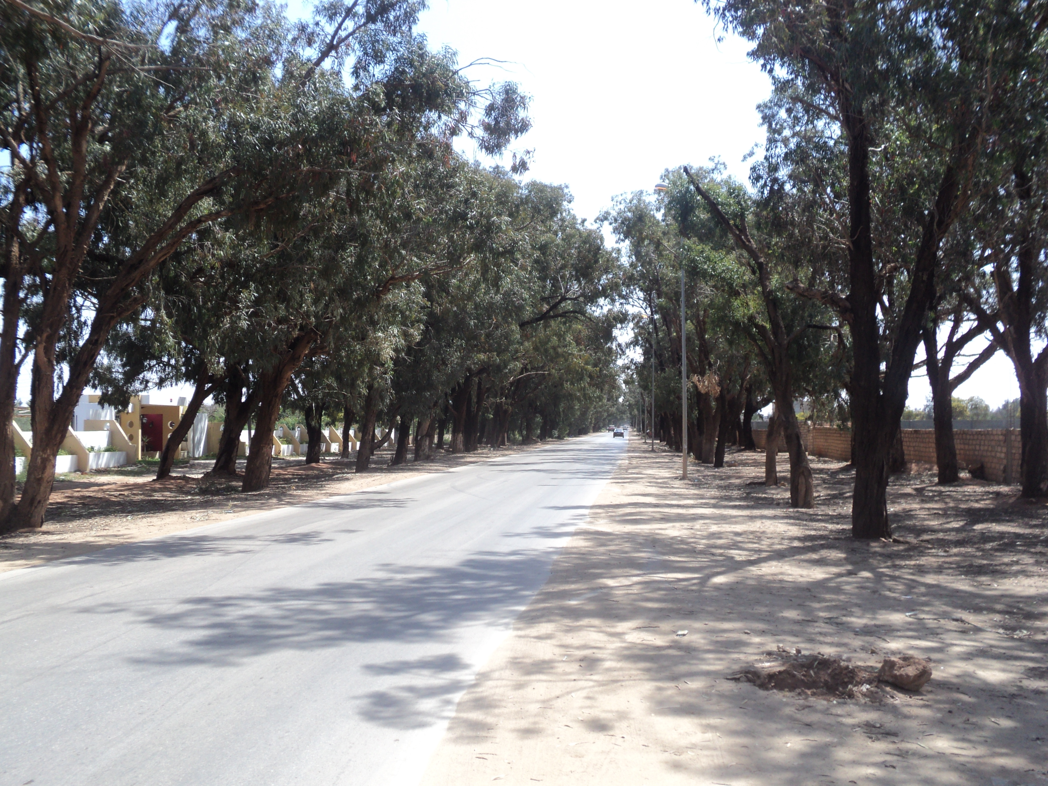 A gateway to Al Guwarsha neibourhood, Benghazi.